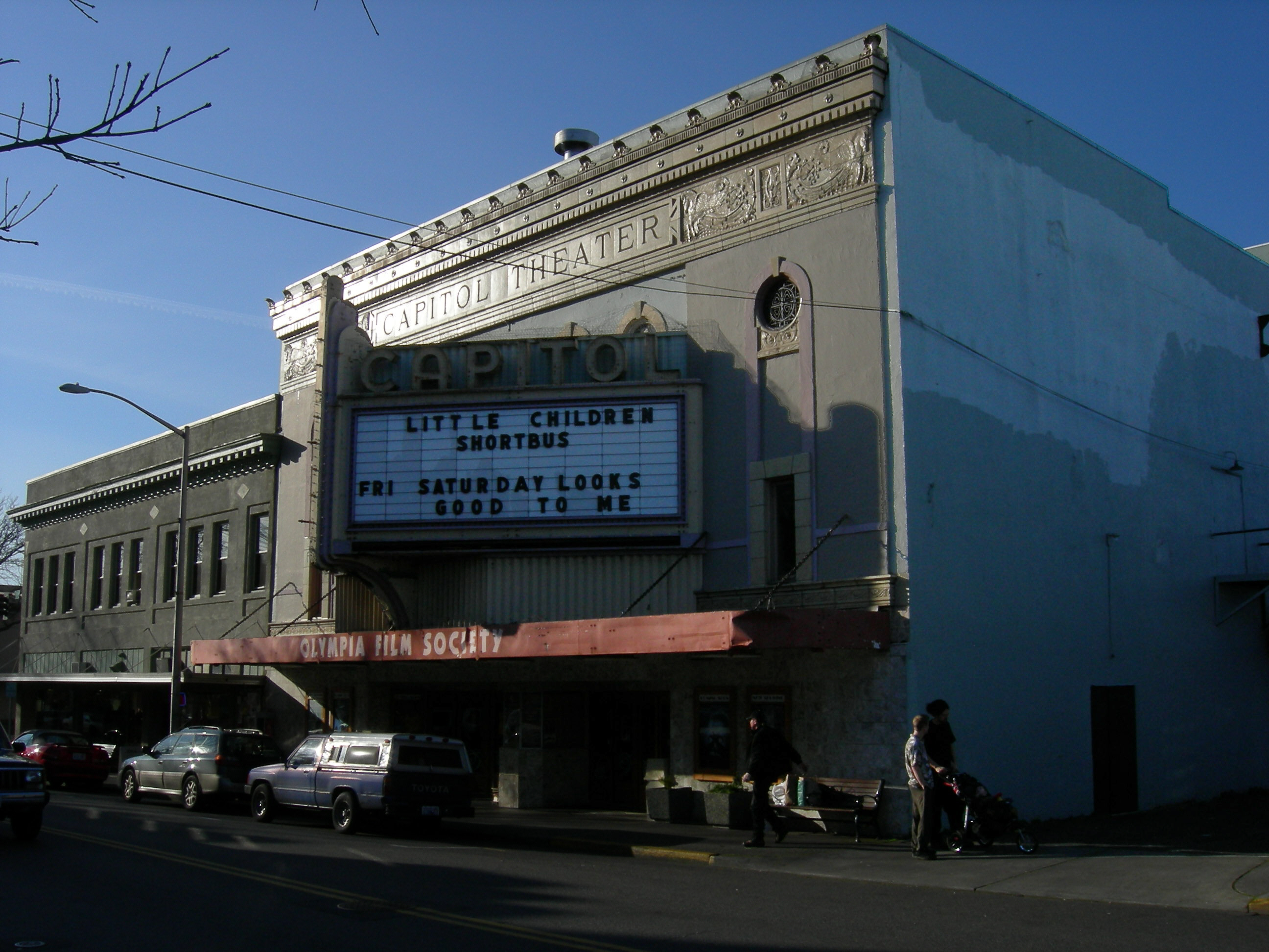 Capitol Theater, headquarters of the Olympia Film Society. Downtown Olympia, Washington.